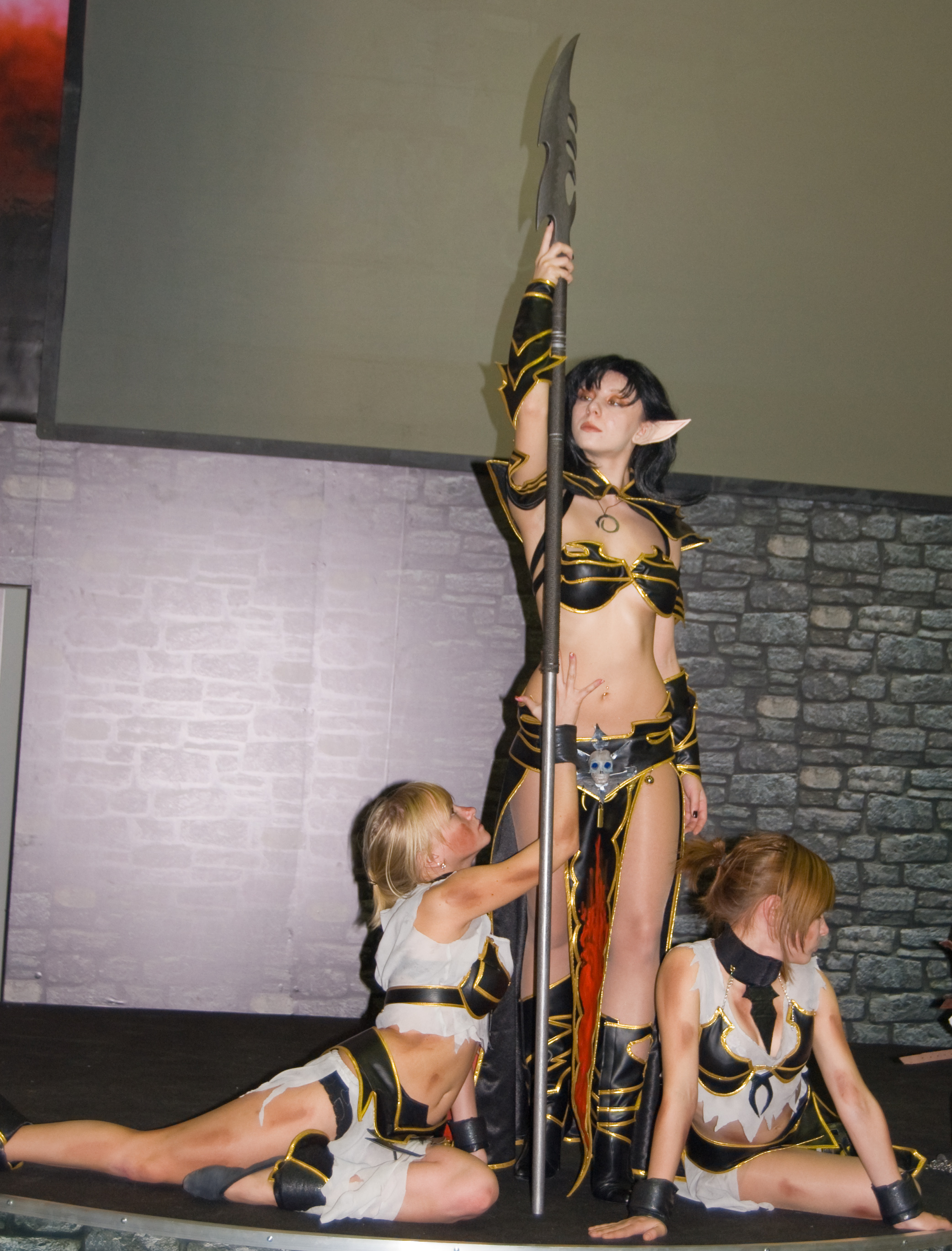 Warhammer Online booth-babes of Igromir 2008